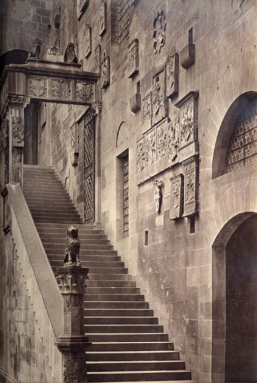 Giacomo Brogi (1822-1881), "Florence - Courtyard of the palazzo del Podestà, 14th century".